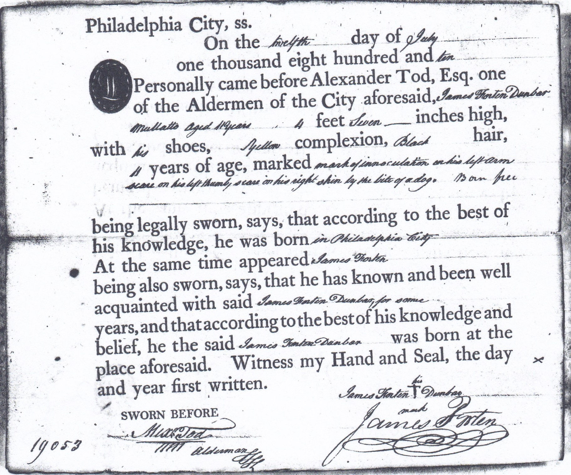 The 12 July 1810 protection certificate issued in Philadelphia identities the bearer as James Forten Dunbar, a “mulatto” (a person of mixed white and black ancestry) age ten, and height 4’ 7’’ inches tall. Dunbar was described as having black hair and yellow complexion. He had a small pox inoculation scar on his left arm and on his right shin the mark of a dog bite. Dunbar was born a “free man of color” in Philadelphia, Pennsylvania. His uncle, the renowned James Forten signed for, and made sure “Born Free” were included in the description. James Forten Dunbar attested the document by his X mark; it is unclear, if he ever became fully literate. Dunbar would spend most of his life as a sailor, aboard such naval vessels as the USS Constellation, USS Niagara, USS Brooklyn and the USS Tusacora.